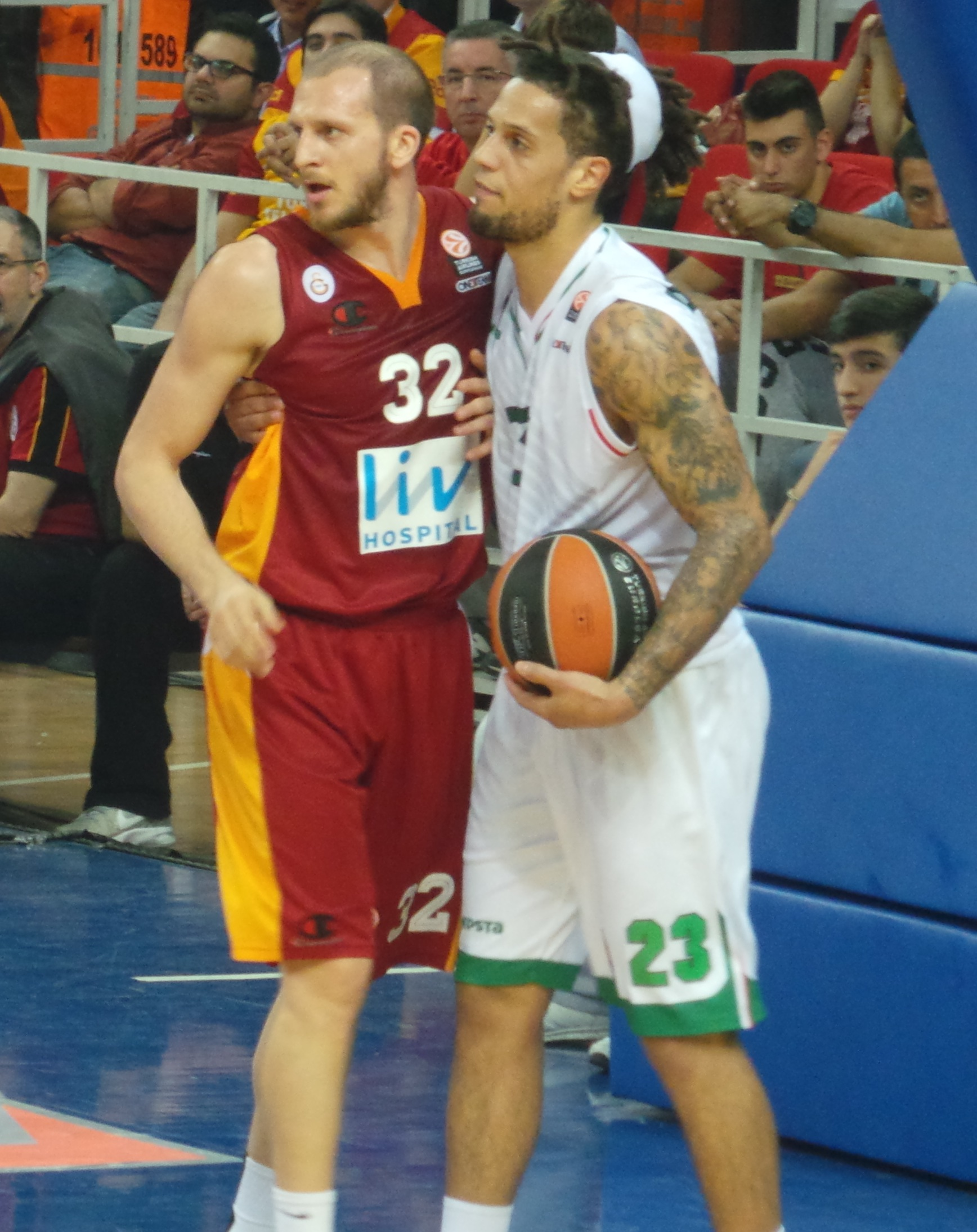 Sinan Güler ve Hackett Sinan Güler'in MVP seçildiği GS-Siena maçında. 21 Kasım 13